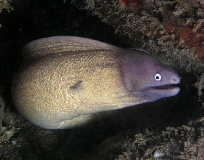 White-eyed moray eel form East Timor